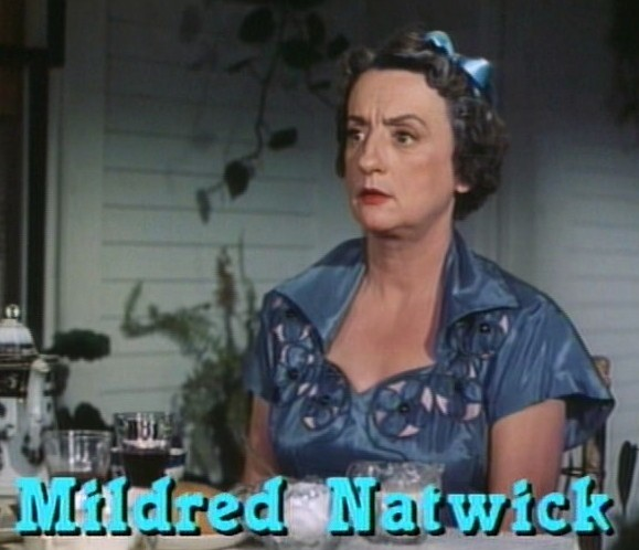 Cropped screenshot of Mildred Natwick from the trailer for the film The Trouble with Harry.